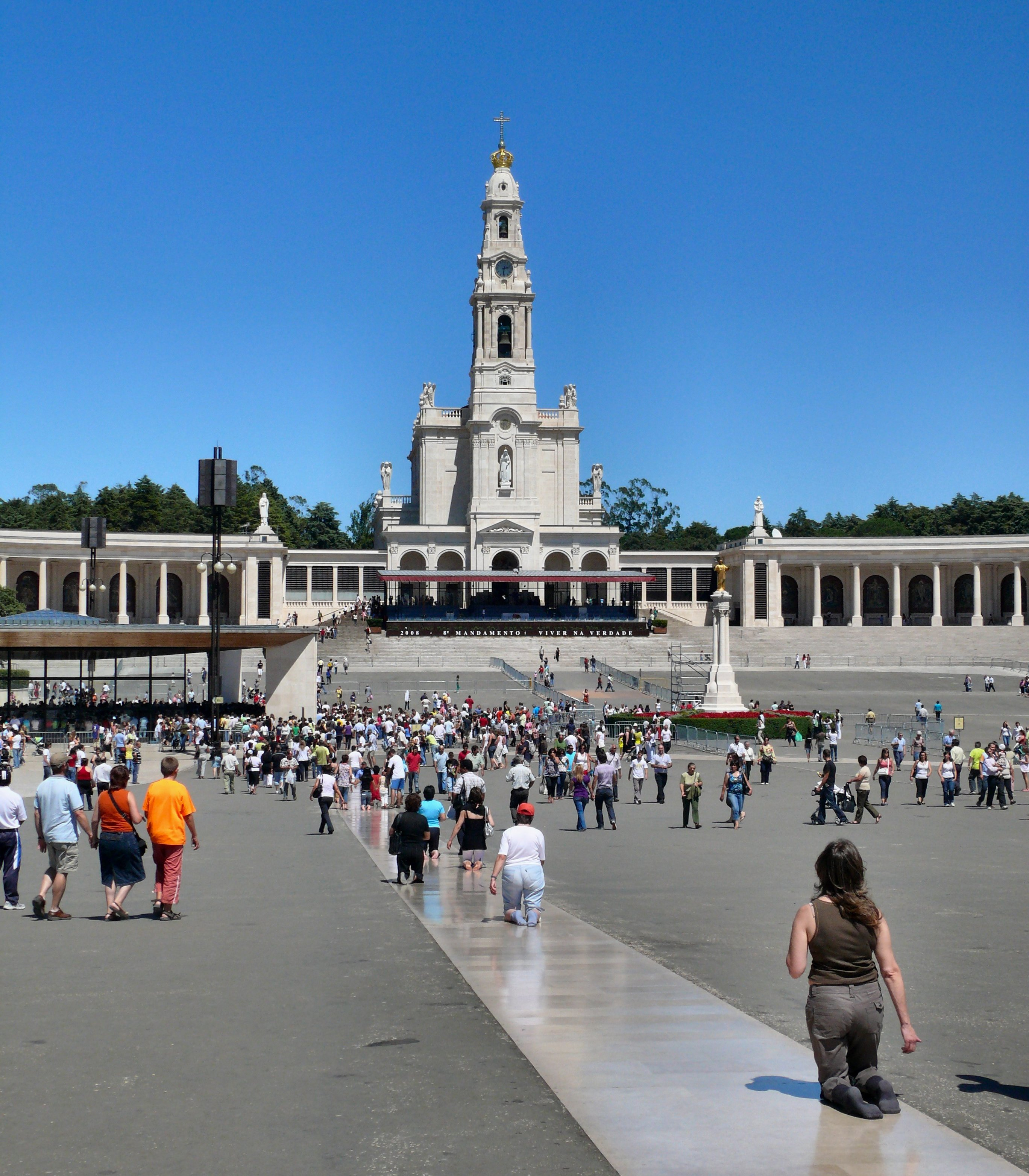 Pilgrims kneeling on the faithway to the sanctuary of the virgin. Taken at Fatima, Beira Littoral, District of Santarem, Centro region, Portugal, August 2008